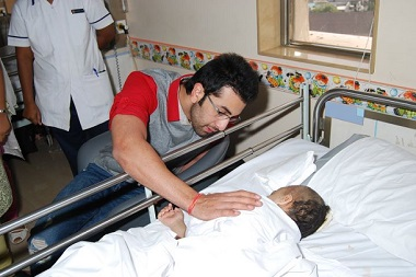 Ranbir Kapoor narrating stories to a kid in hospital